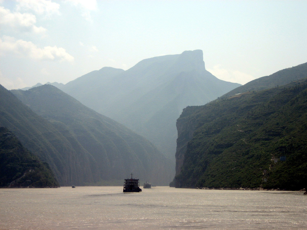 The Kuimen Gate (夔门) — the entrance to Qutang Gorge. Qutang Gorge is the first (western) of the Three Gorges of the Chang Jiang (Yangtze River). explore #82, Nov.2,2006